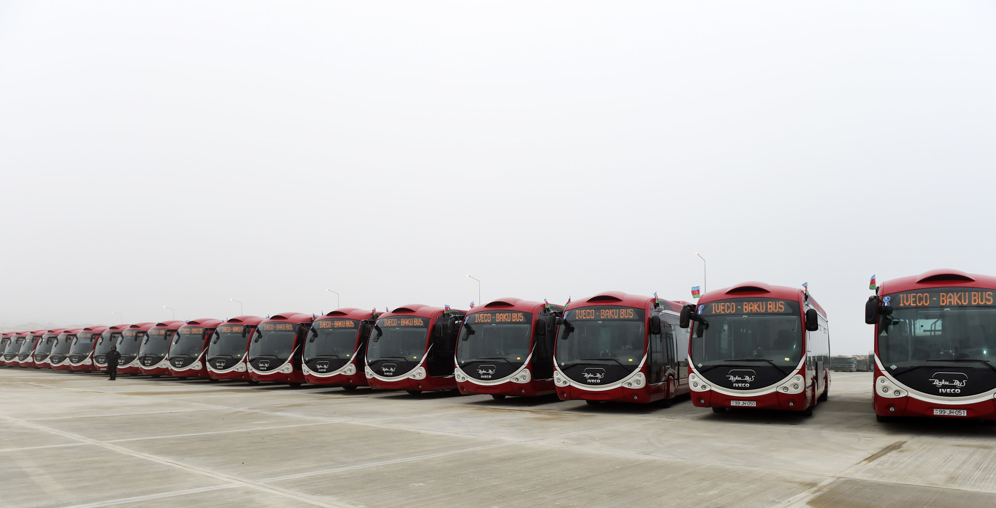 Ilham Aliyev reviewed ongoing worк at a bus depot and a training center for the First European Games